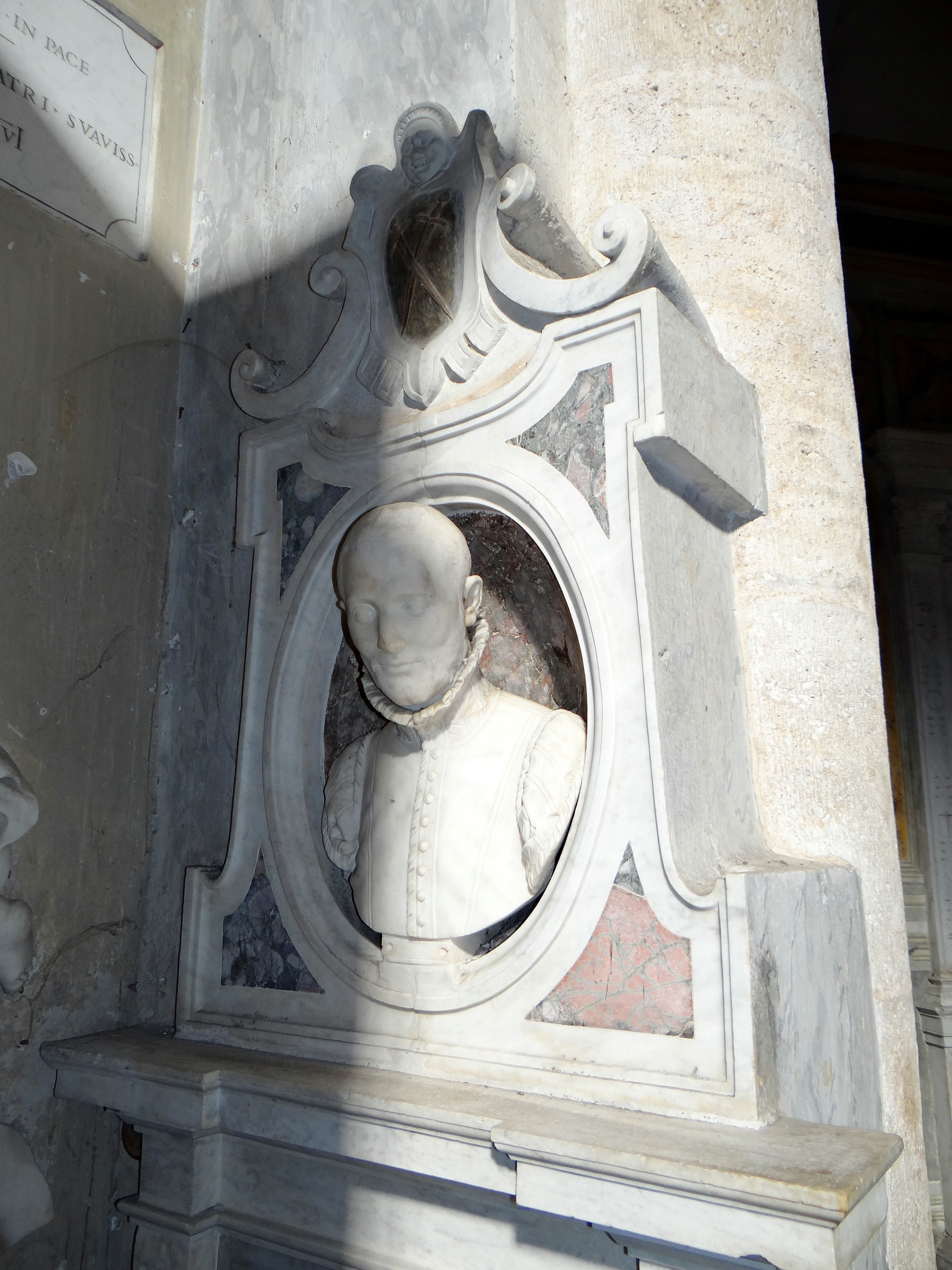 The portrait of Stefano Spada on his tomb (after 1563), Santa Maria del Popolo, Rome.